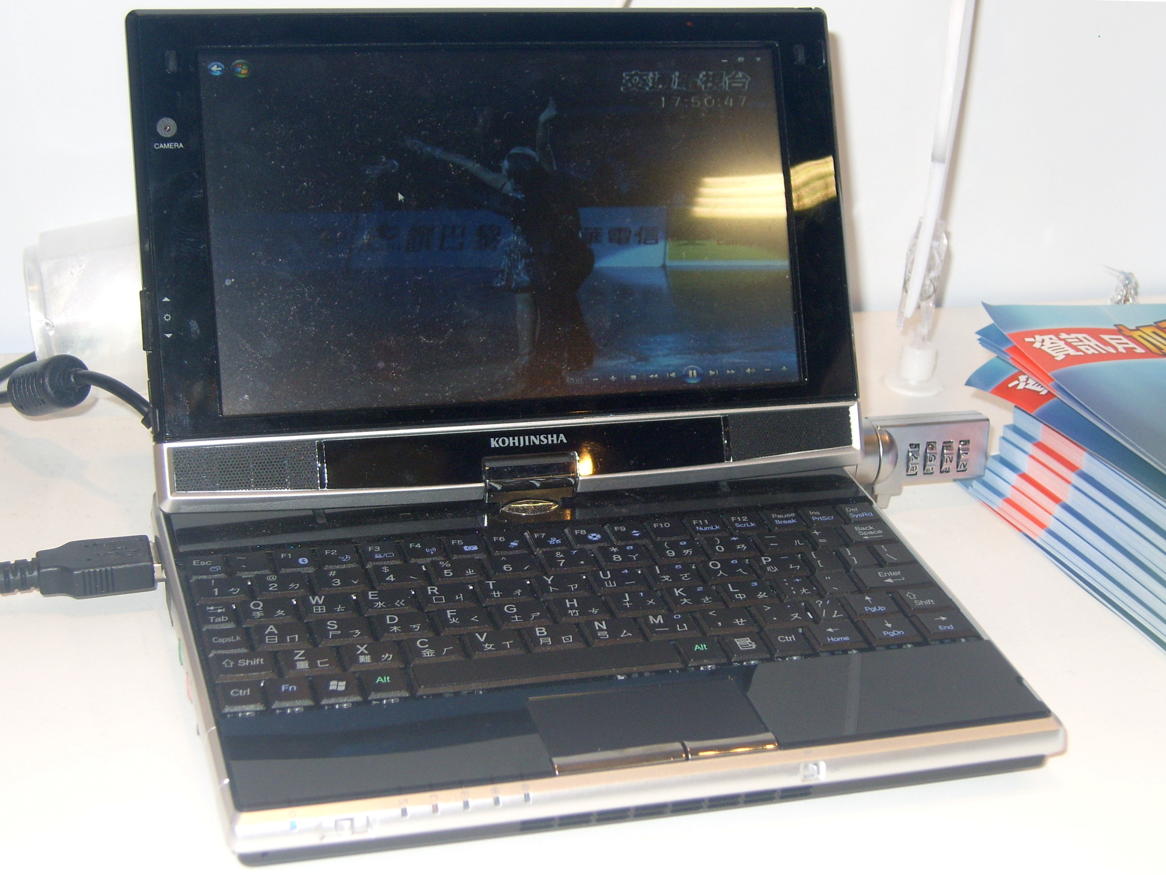 2008 Taipei IT Month: KOHJINSHA SC Netbook in black.